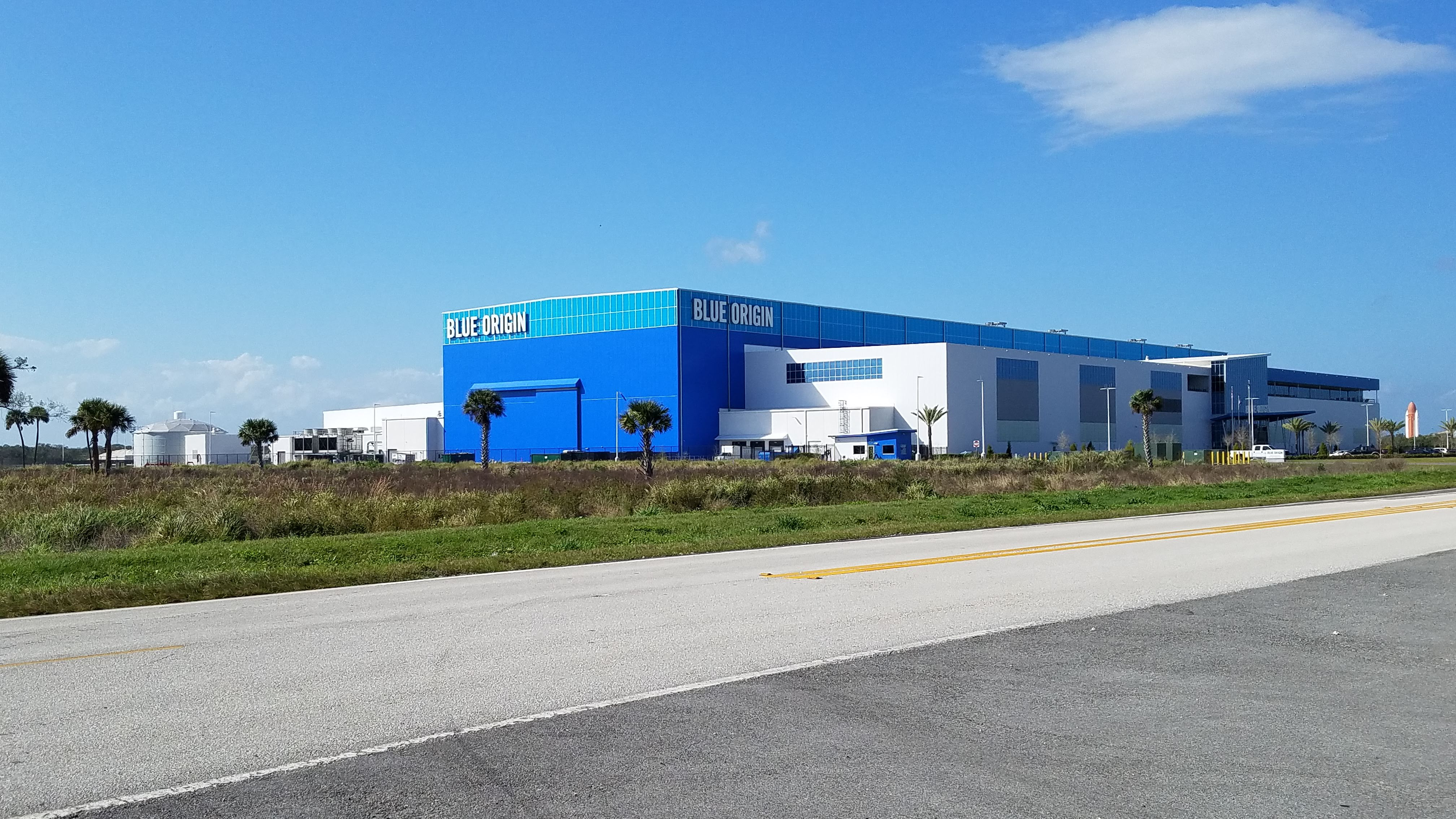 Blue Origin Orbital Launch System (OLS) manufacturing building, Merritt Island, Florida, February 2019. View from southeast.